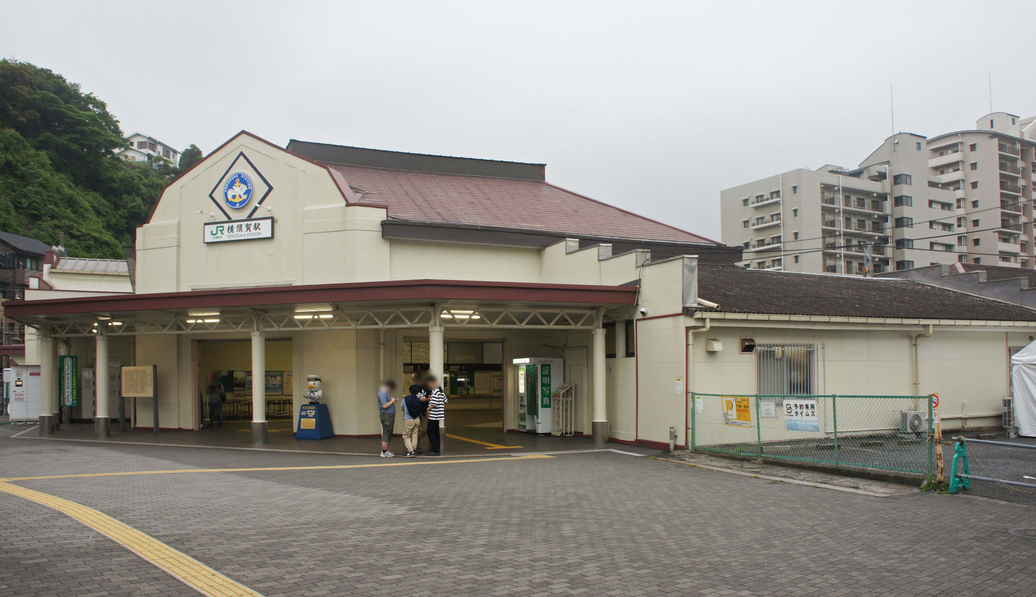 Station building of JR Yokosuka-Line Yokosuka Station